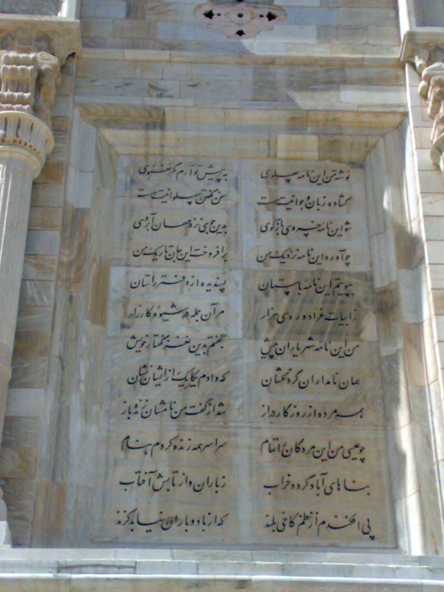 Some verses of Shahnameh written on Ferdosi's tomb.